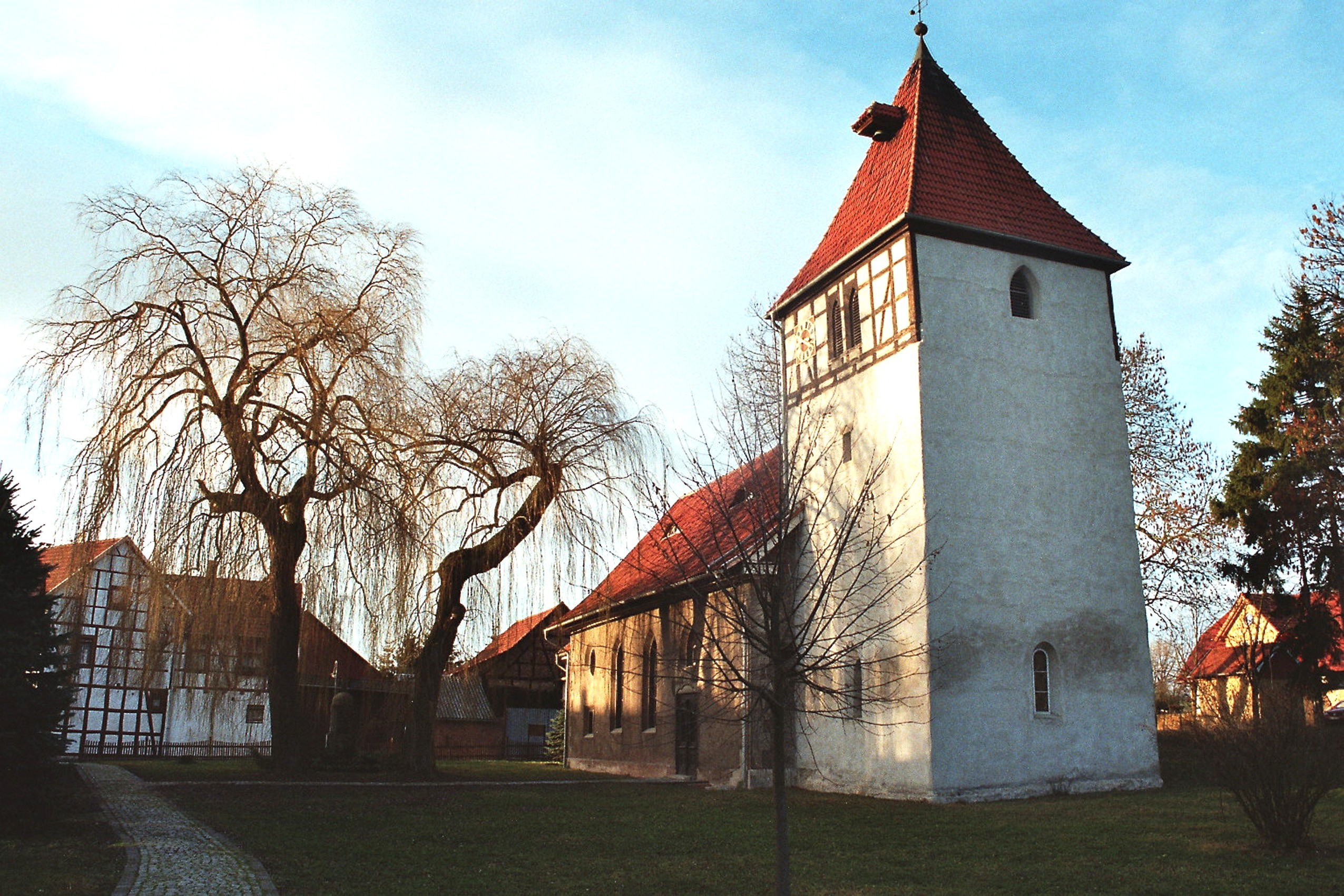 Obermehler, the St. Ulrich church